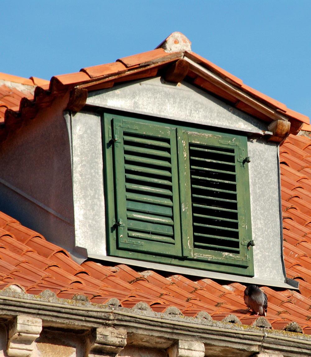 Window shutter - Dubrovnik